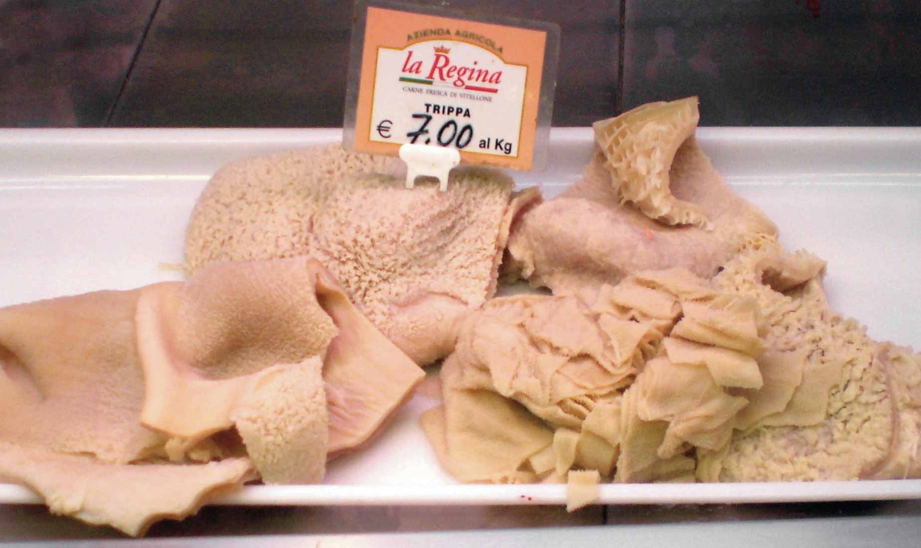 Tripe in an Italian market. Some tasty tripe for you.